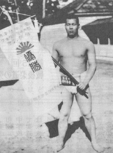 A Japanese judoka, Toshirō Daigo, as a amateur sumo wrestler in his school days.